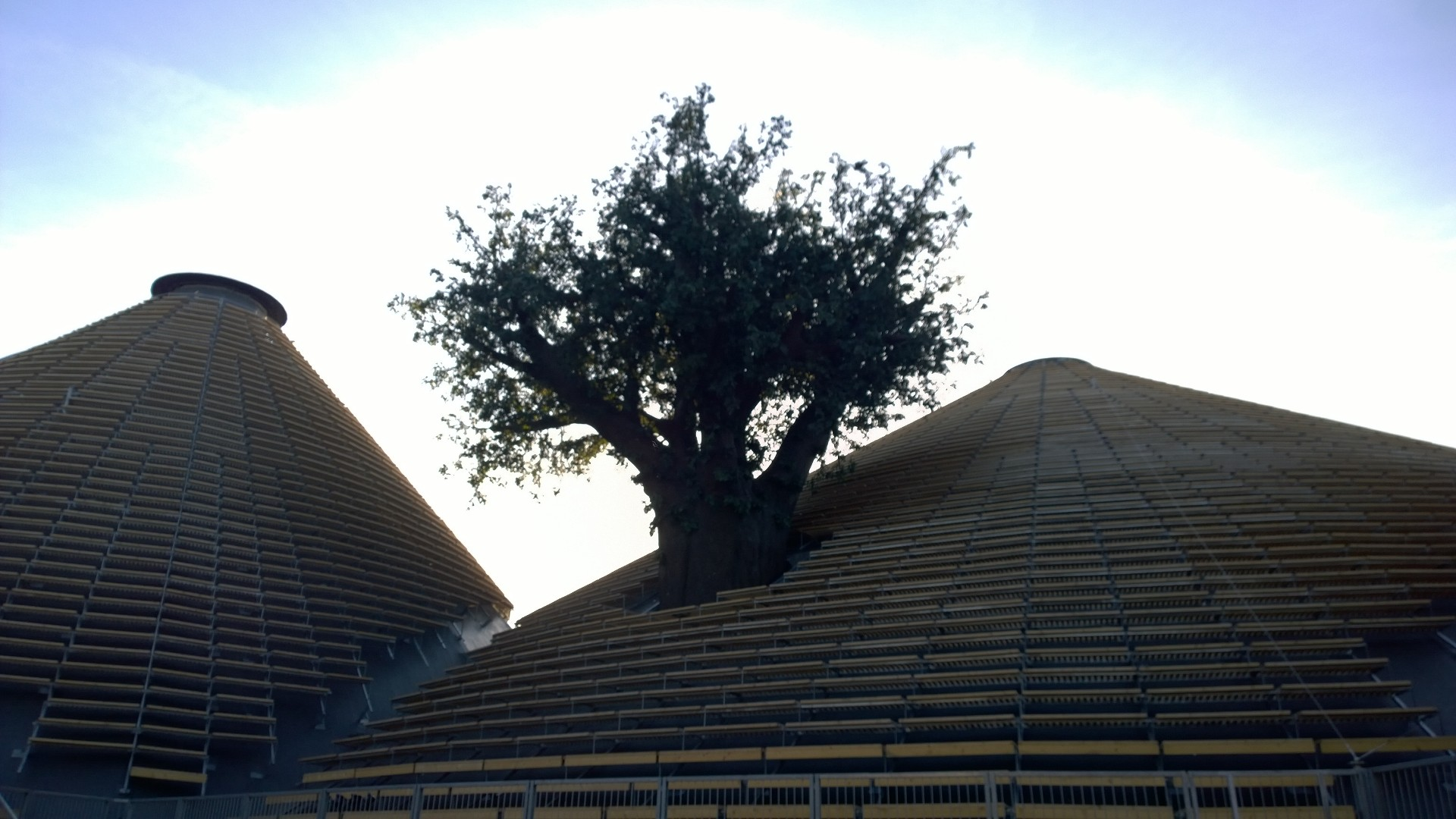 The big tree that stands out against the roof of Zero Pavilion at Expo 2015 Milano